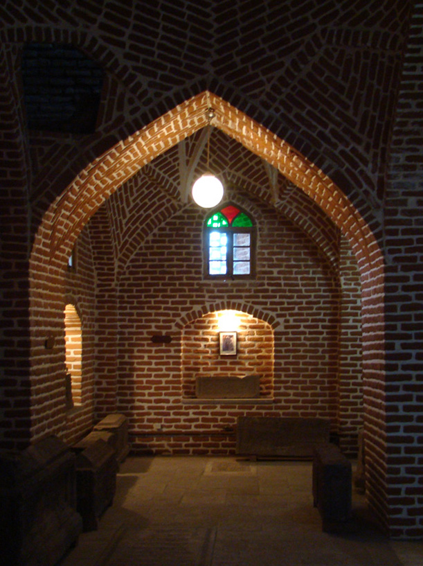 Maragheh